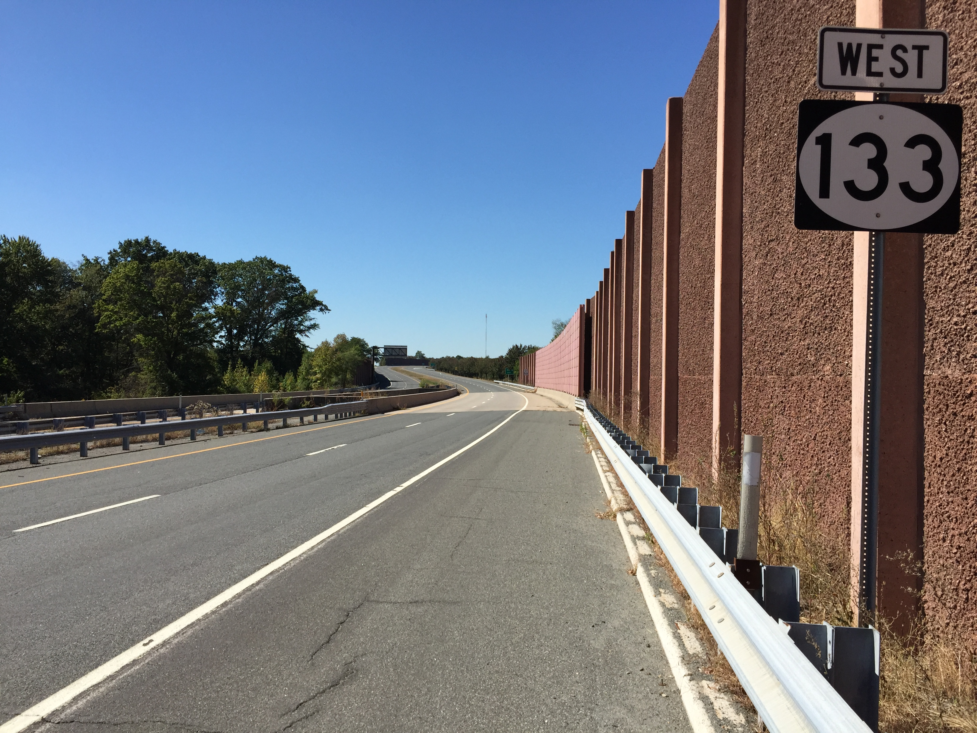 View west along New Jersey State Route 133 (Hightstown Bypass) just west of U.S. Route 130 in East Windsor Township, Mercer County, New Jersey